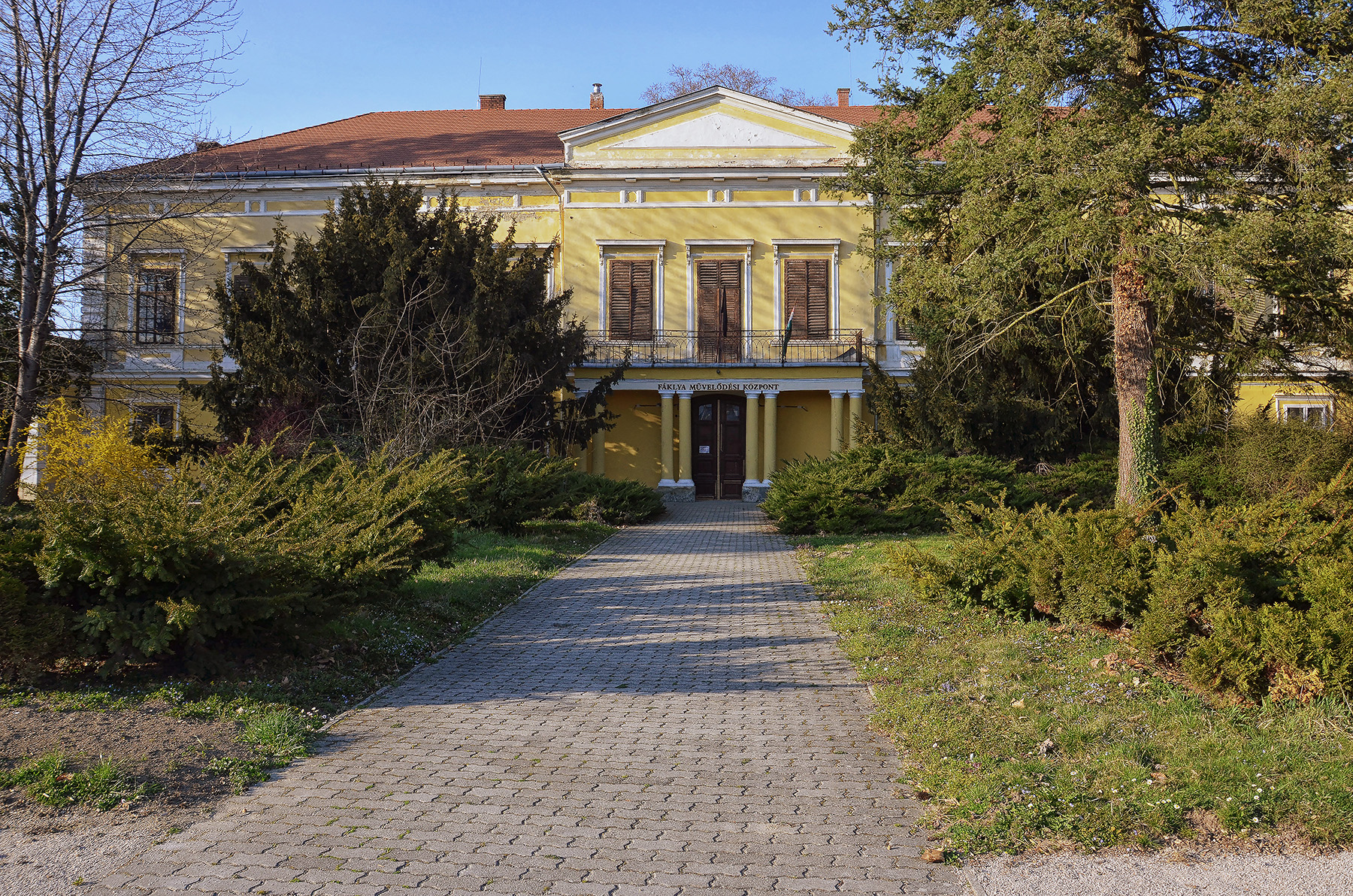 Letenye, Hungary, the Szapáry-Andrássy Mansion